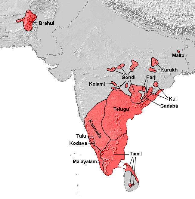 Area where Dravidian languages are spoken